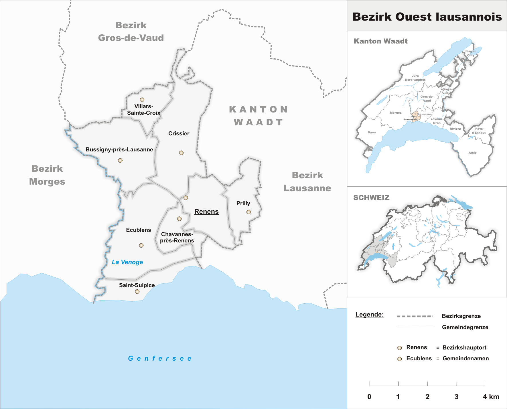 Municipalities in the district of Ouest lausannois